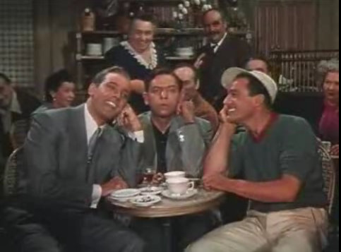 Screenshot of Georges Guétary, Oscar Levant and Gene Kelly from the trailer for the film An American in Paris